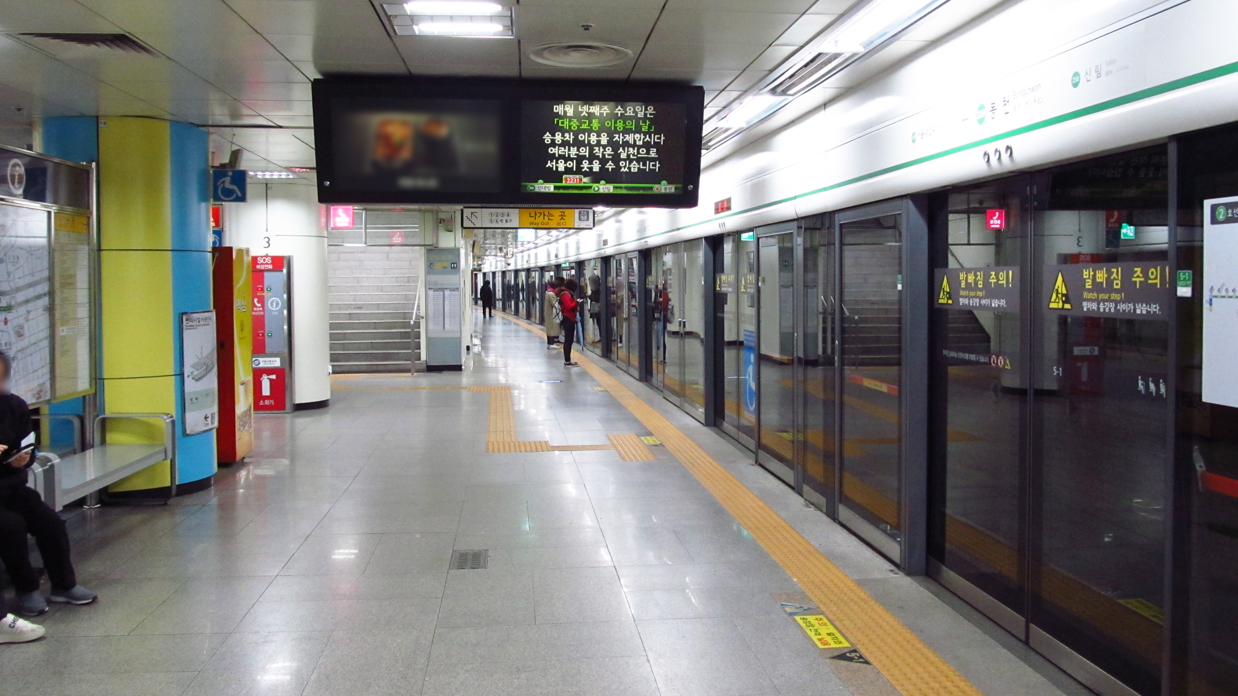 The platform at Bongcheon Station on Seoul Subway Line 2 in Gwanak-gu, Seoul, Republic of Korea(South Korea)